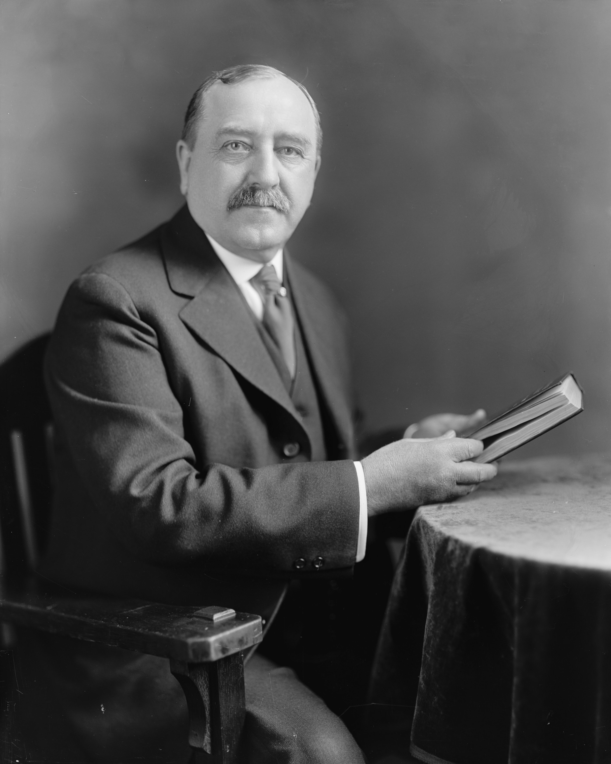 Samuel Austin Kendall, US Representative from Pennsylvania